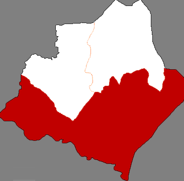 Location of Pingluo county in Shizuishan city, China